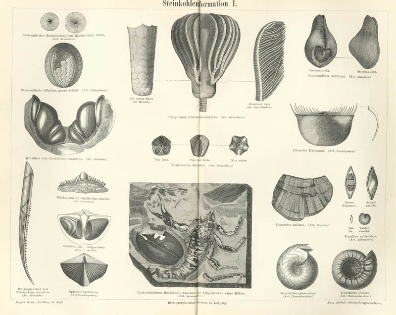 Fossils of the Carboniferous age